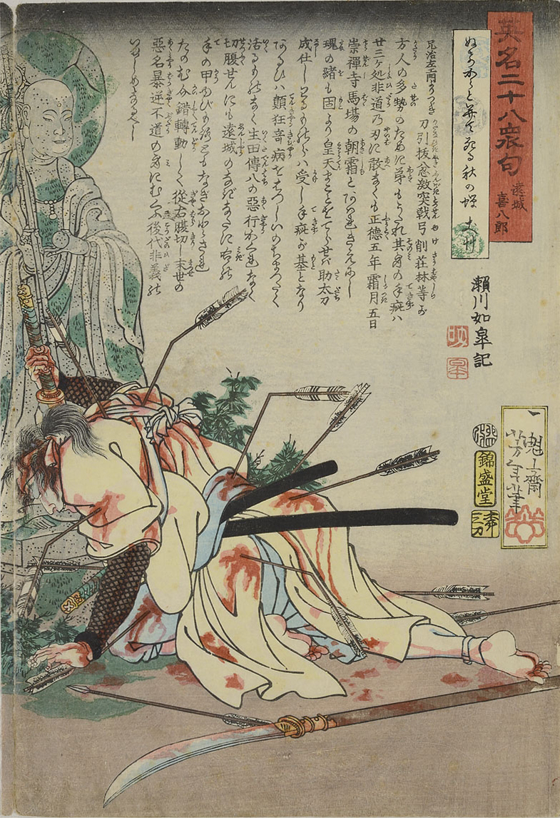 Enjō Kihachiro fallen at the foot of a statue (Jizō-Statue). No. 8 of 28 Famous Murders with Verse (Serie)